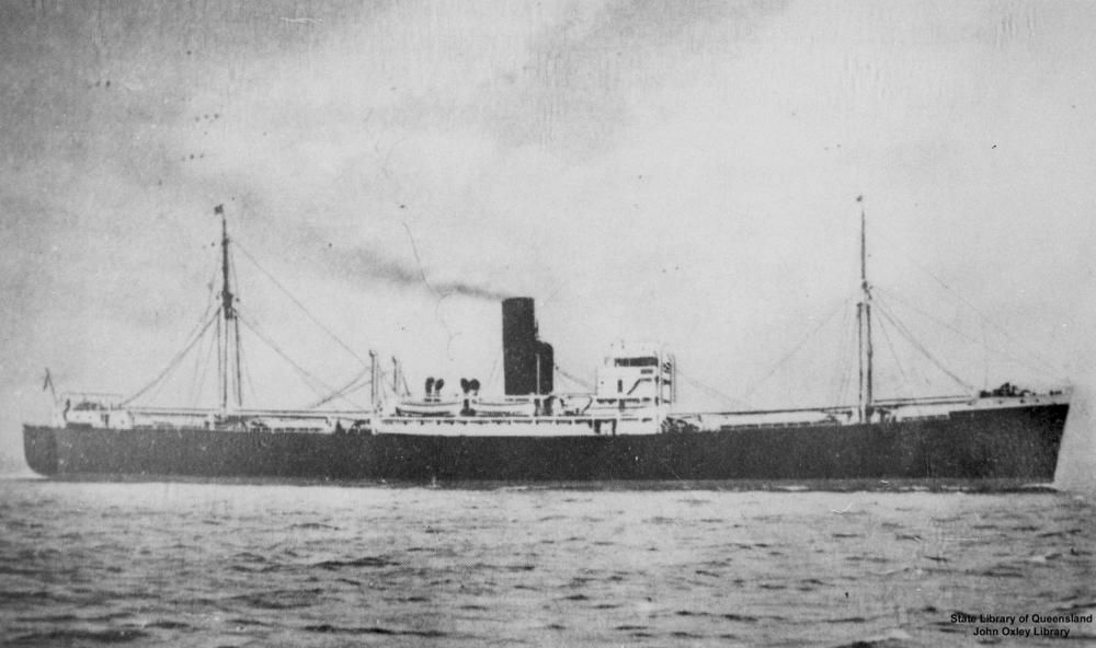 Alfred Booth & Co's 5,051 GRT cargo steamship Clement: built by Cammell, Laird & Co of Birkenhead in 1934 and sunk by the German cruiser Graf Spee on 30 September 1939.)